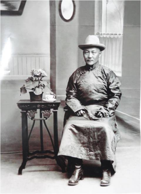 Photograph of Tserendondovyn Navaanneren (1887-1937), the Minister of the Interior. In Ulaanbaatar, Mongolia, during the 1920's.